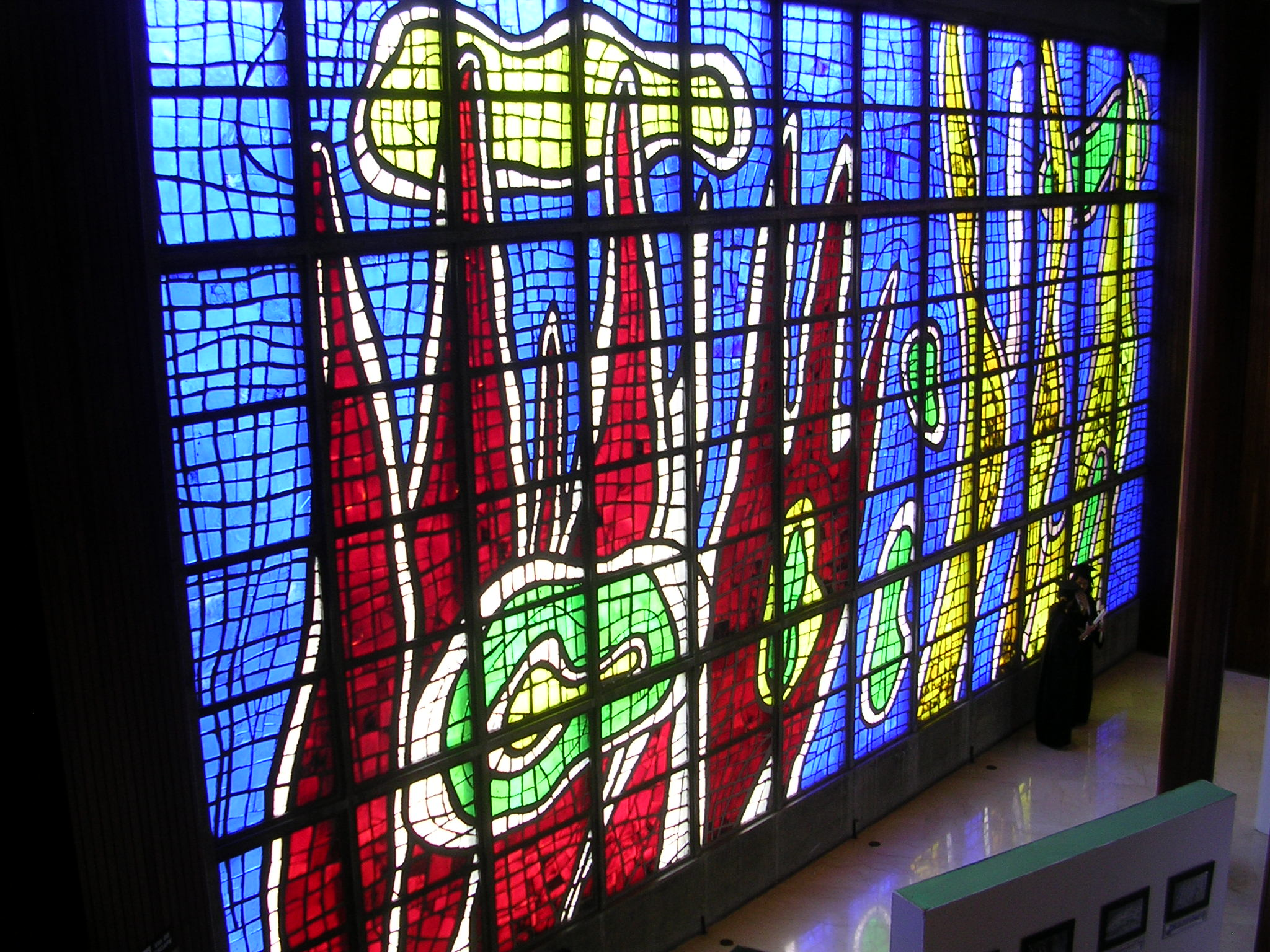 Fernand Léger's stained-glass window at the Central University of Venezuela. Modern movement art + architecture in Venezuela.